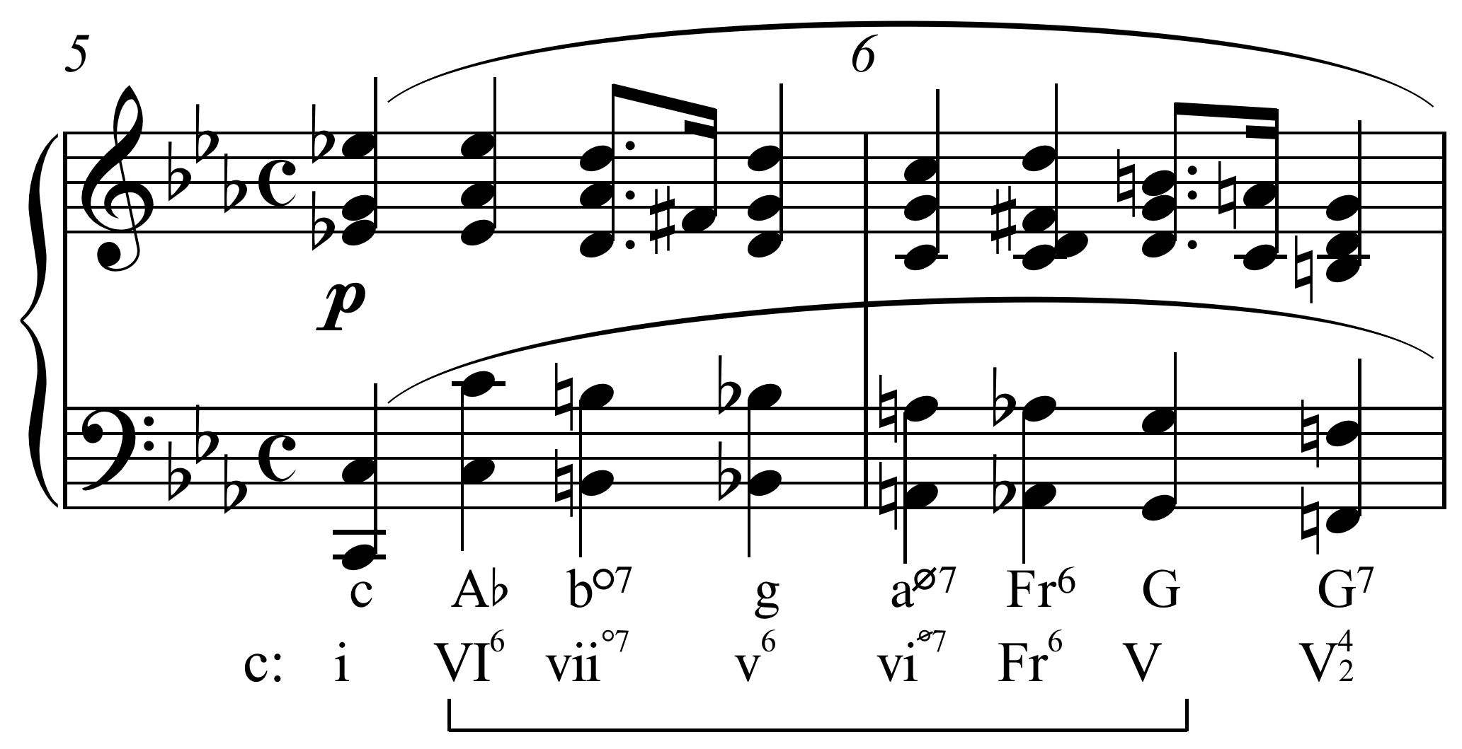 Chromatic run from Chopin's Prelude in C Minor, mm.5-6. Though labeled, the chords are not functionally related.